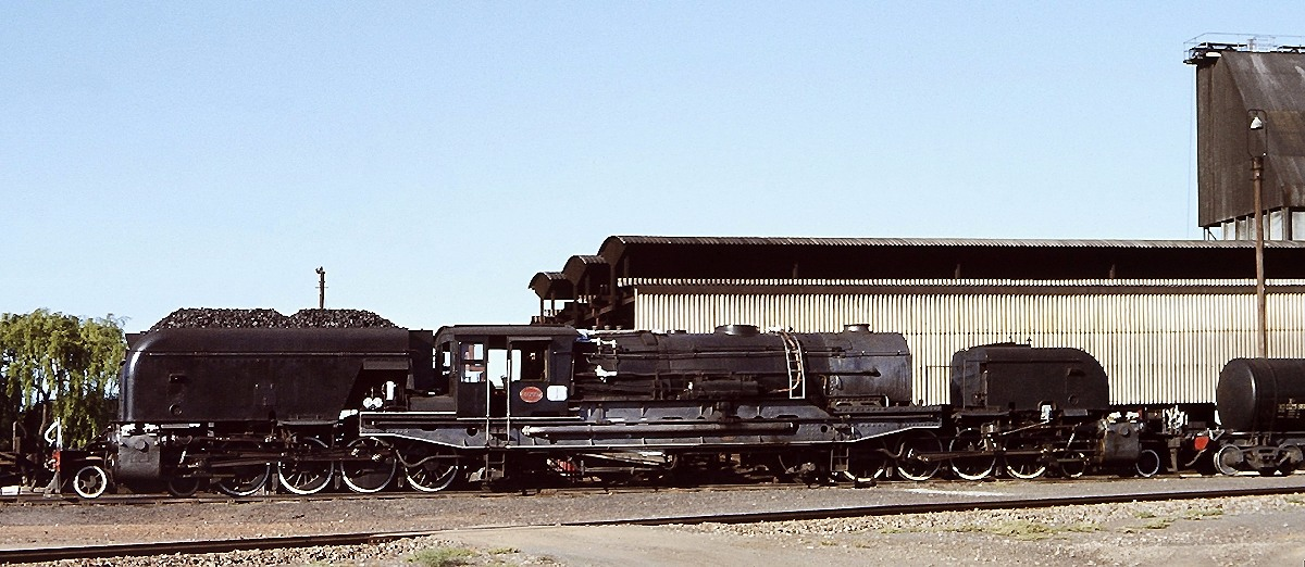 No 4099, a South African Garratt class GMAM at Oudtshoorn locomotive depot